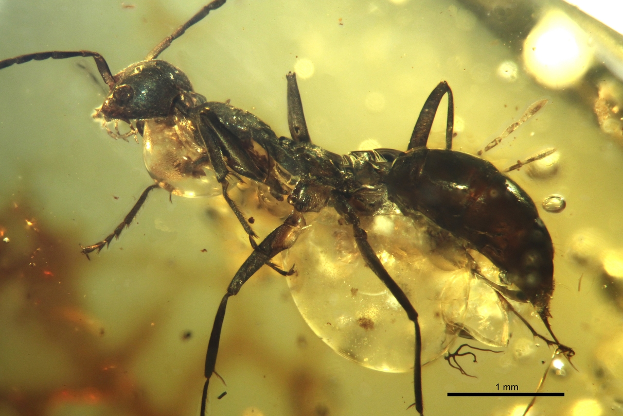 Profile view of Gerontofromica orientalis (syn Sphecomyrmodes orientalis) worker IGR-Bu001